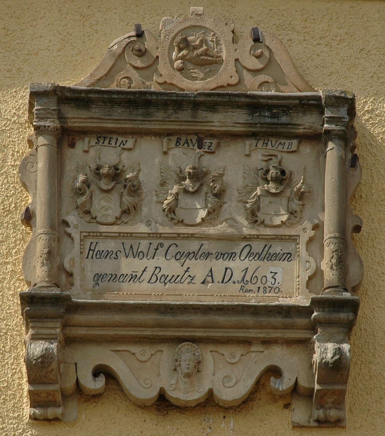 stone of families Capler-Stein-Thumb at Willenbach manor house near Oedheim.